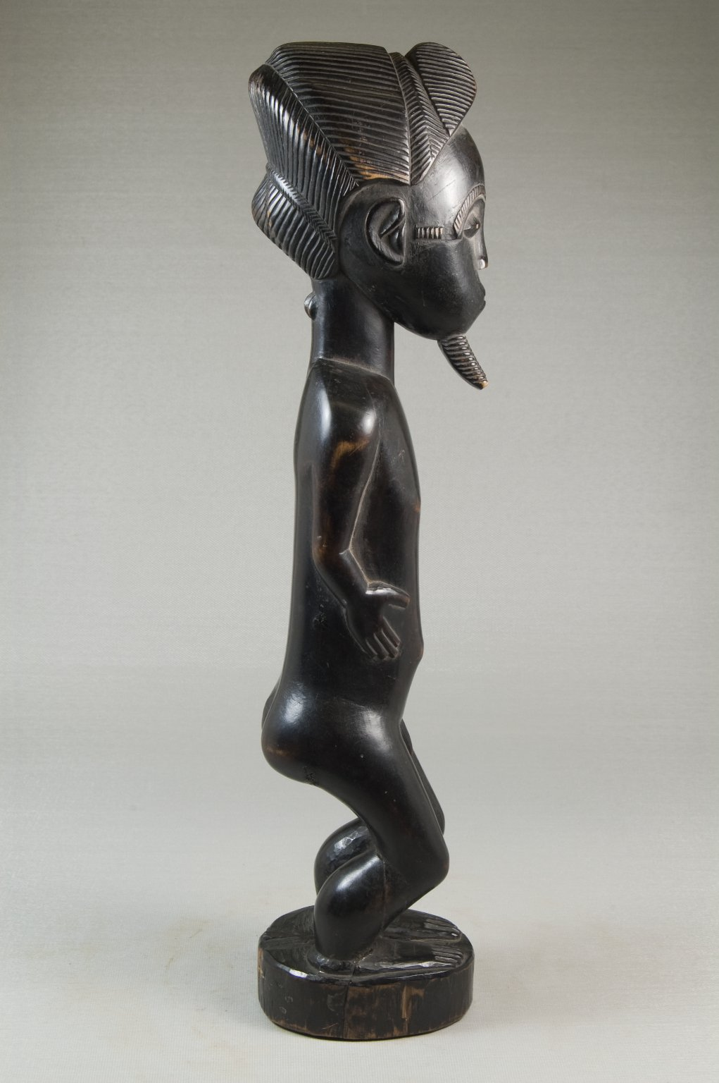 Male Figure (Blolo bian)